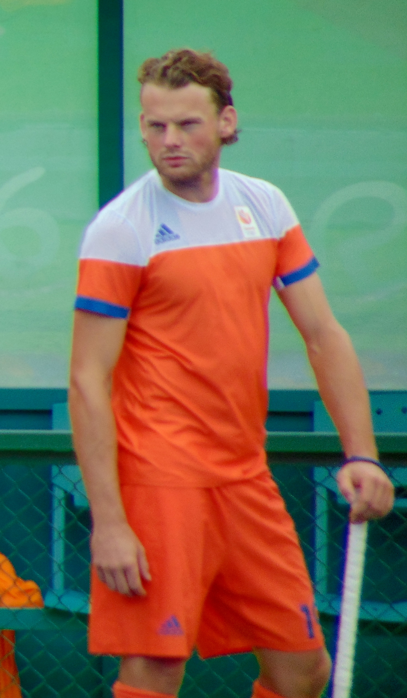 Rio 2016 - Men's and Women's Field hockey (HO025)